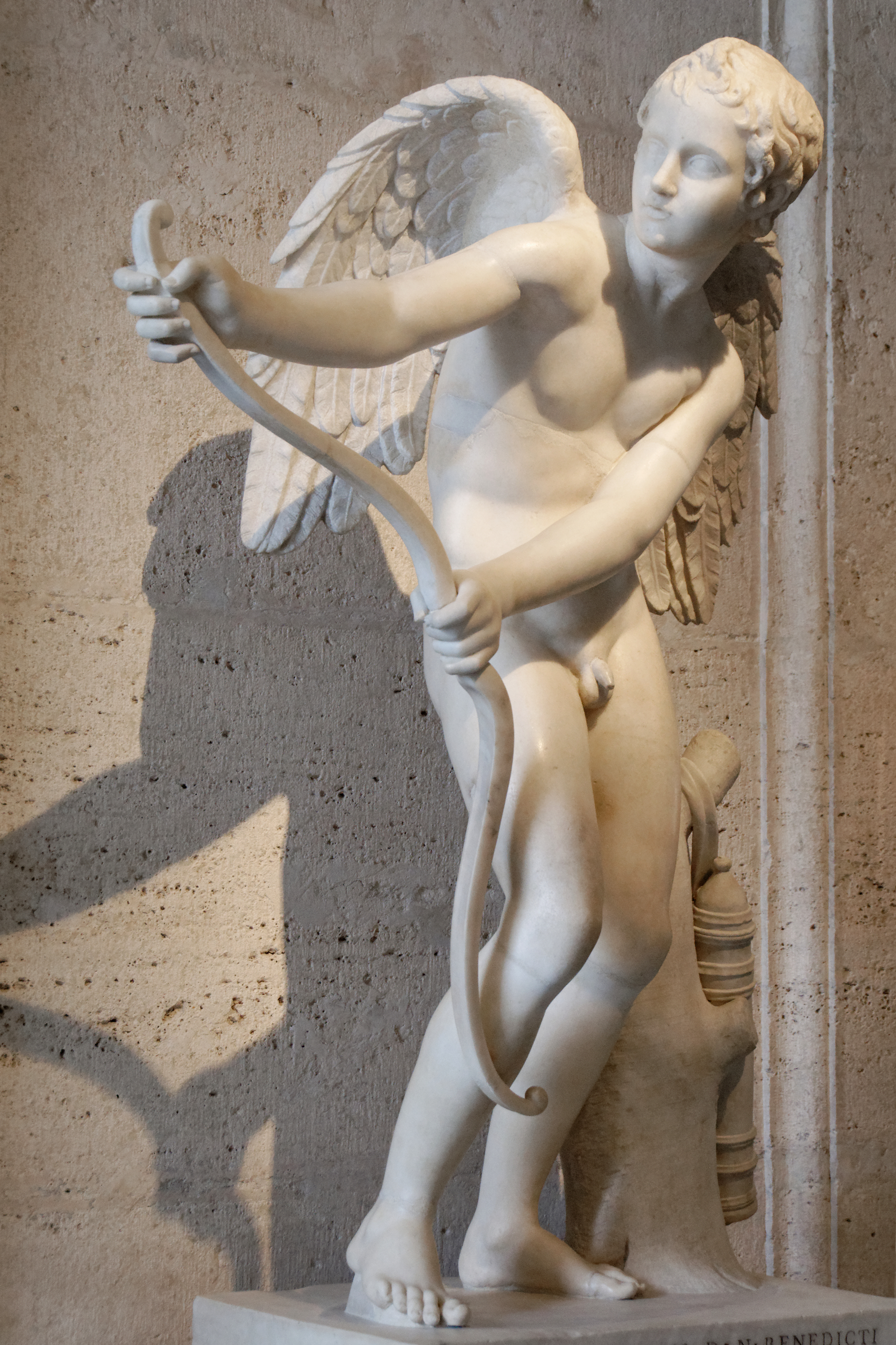 Amor stringing his bow, Roman copy after Greek original by Lysippos.